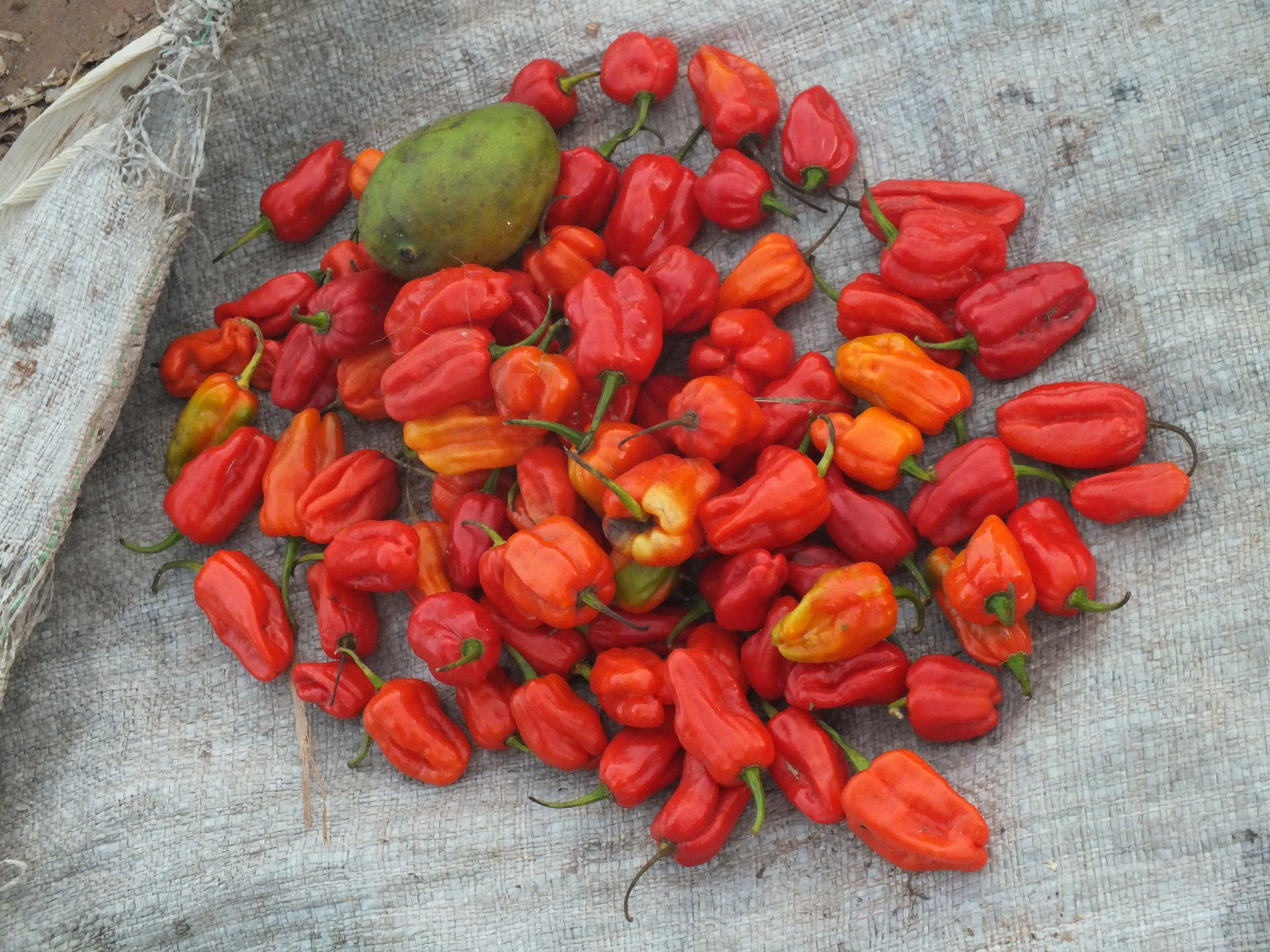 Back to Lake Tanganyika. A flushed exciting bunch of red hot peppers that here and in South Africa are called Piripiri and have a strong association to both the cuisine of Portugal and African cuisine. They are found in vast use in the local food culture and are as inspiring as they look.The greenish foreigner at the side of the pile is a mango, eaten with salt and piri piri.